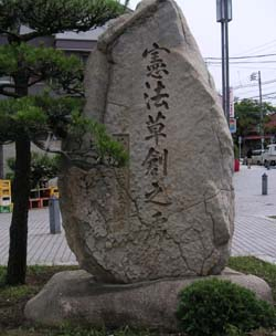 Image of a memorial for the Meiji-Constitution